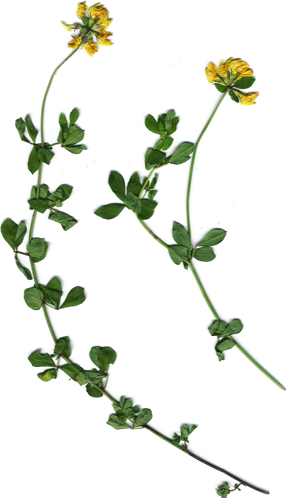 Lotus uliginosus (plant). Location: Maui, Polipoli